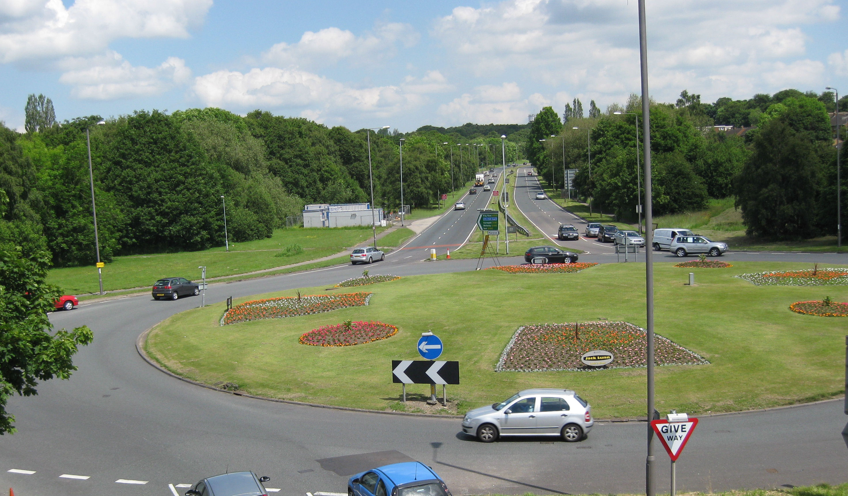 Leeds Ring Road, A6120,looking East from King Lane roundabout, Moor Allerton towards the Harrogate Road junction